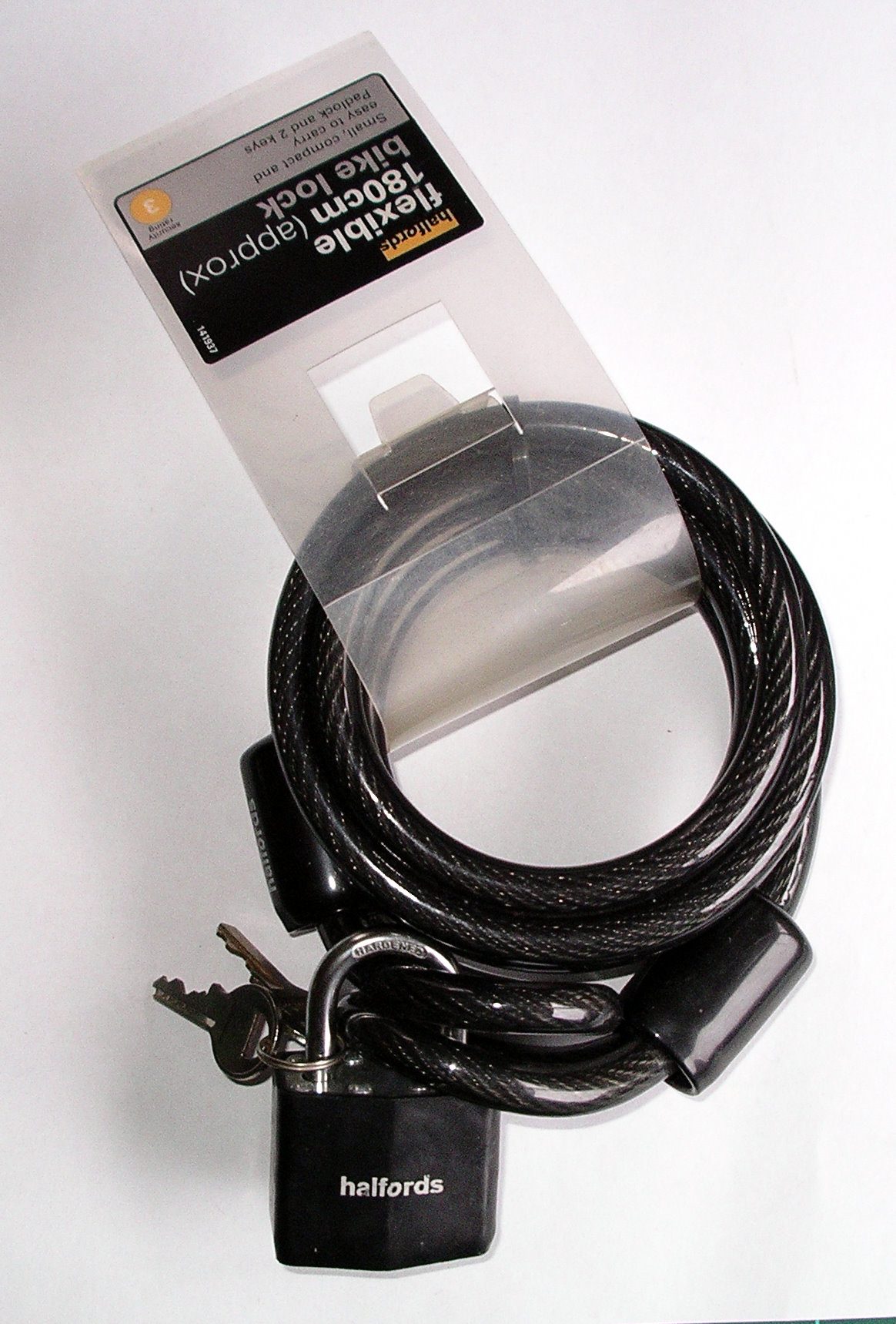 Bike lock with its cable. Photo taken on 26 December 2006 by me.